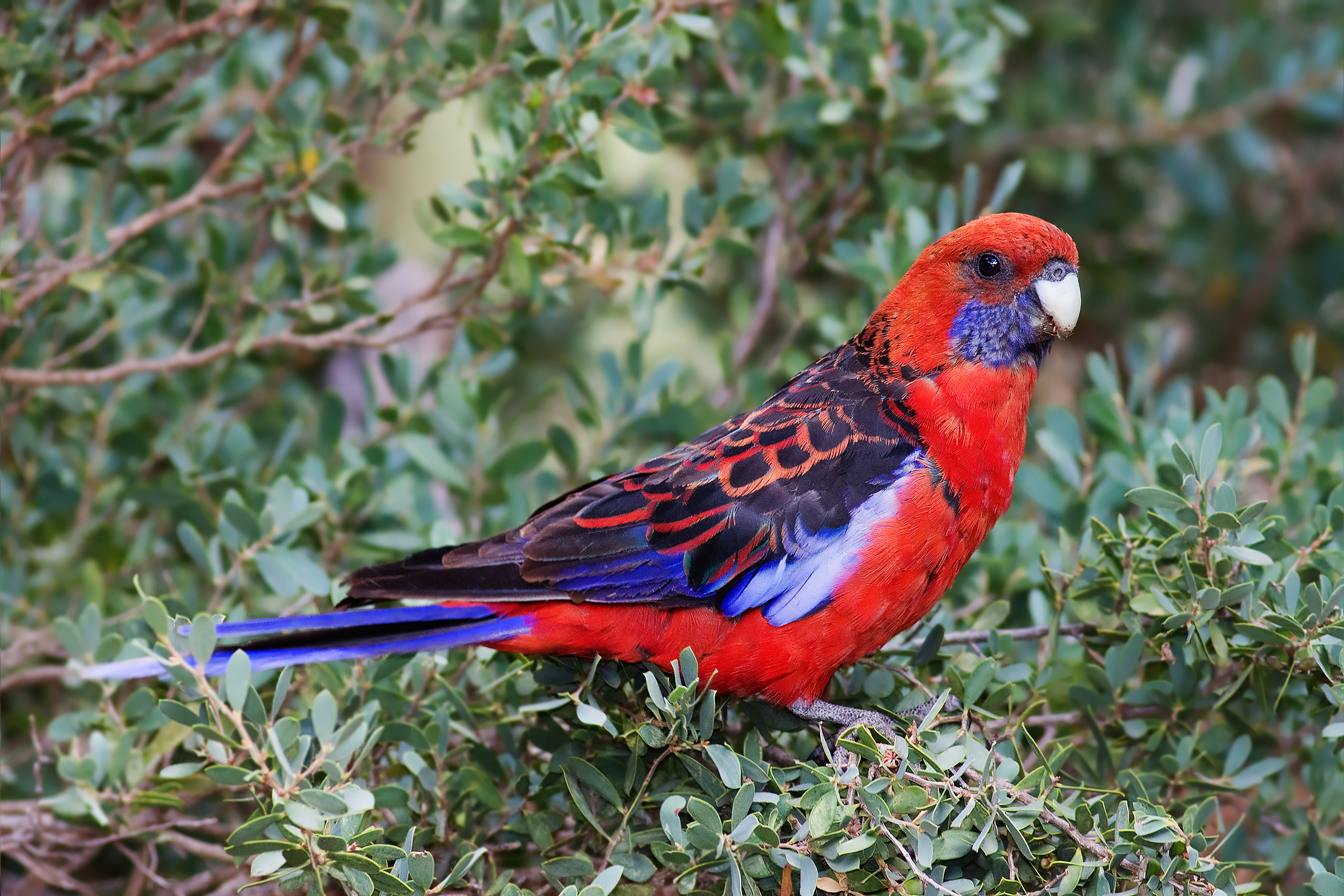 An adult Crimson Rosella (Platycercus elegans), Wilsons Promontory National Park, Victoria, Australia.